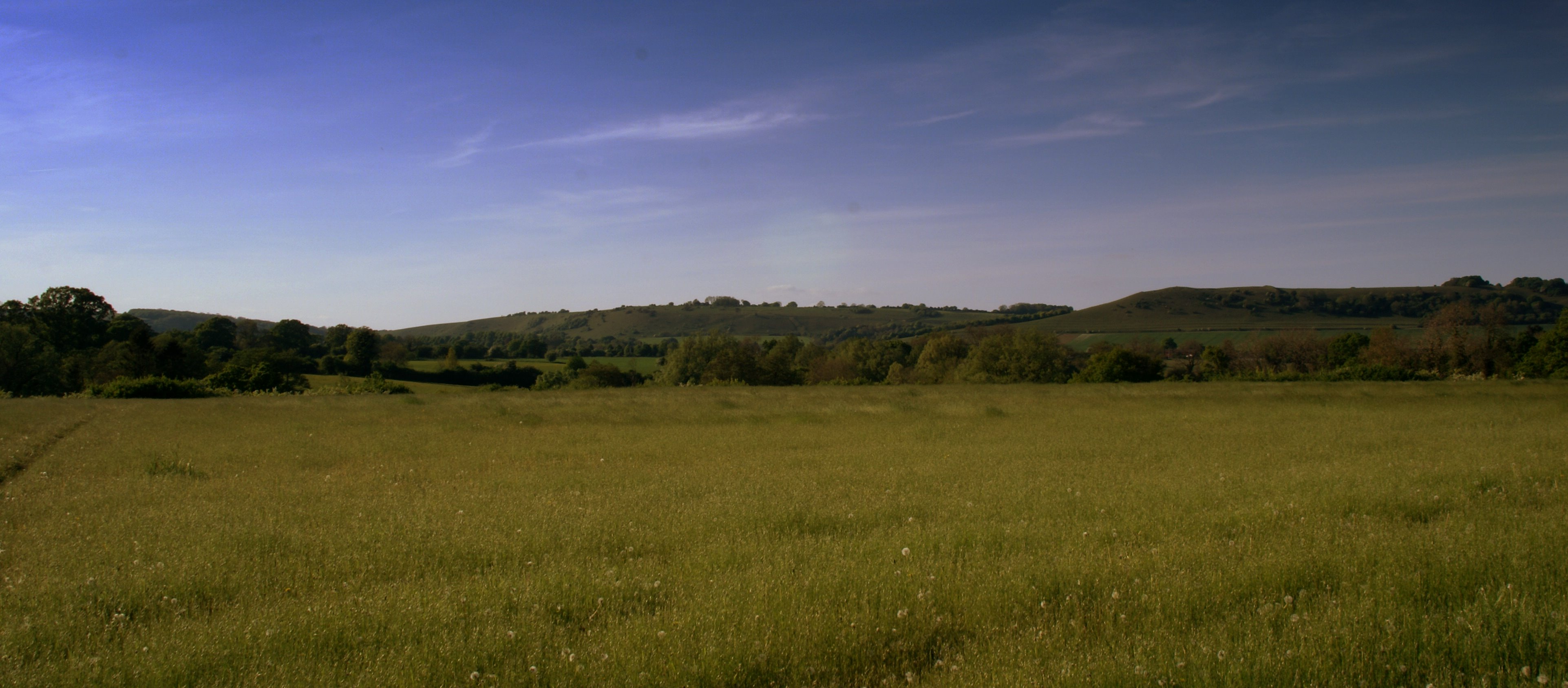 looking west towards Pewsey